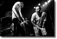 Samiam in concert.